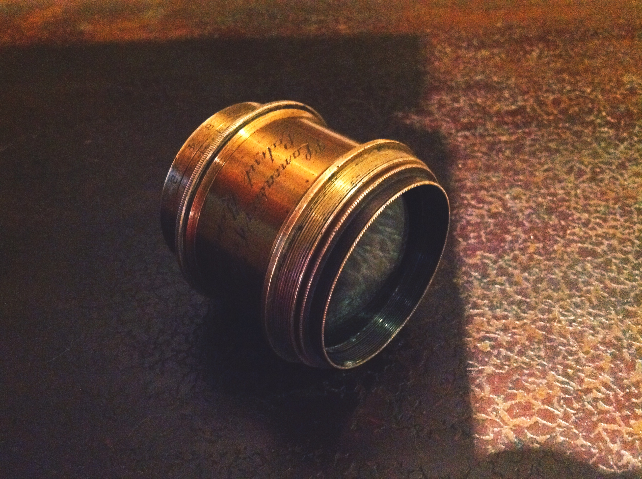 J. LANCASTER & SON , Patent Birmingham, achromatic landscape brass lens 7" w/ iris calibrated time, 1878